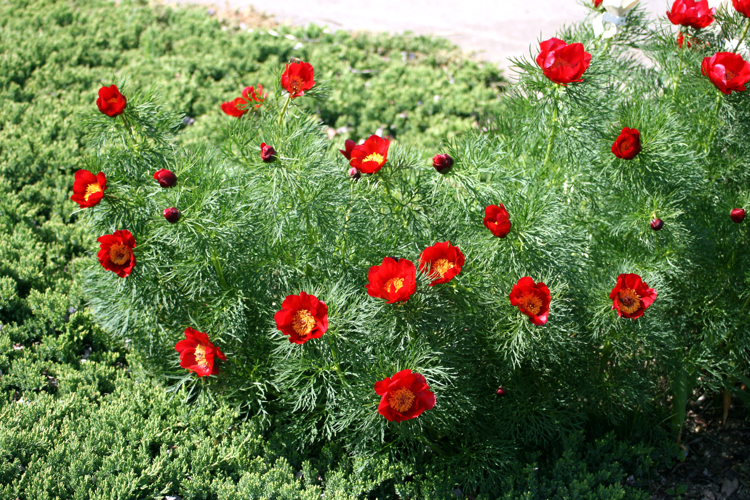 Flower Paeonia tenuifolia in Prague botanic garden, Czech Republic